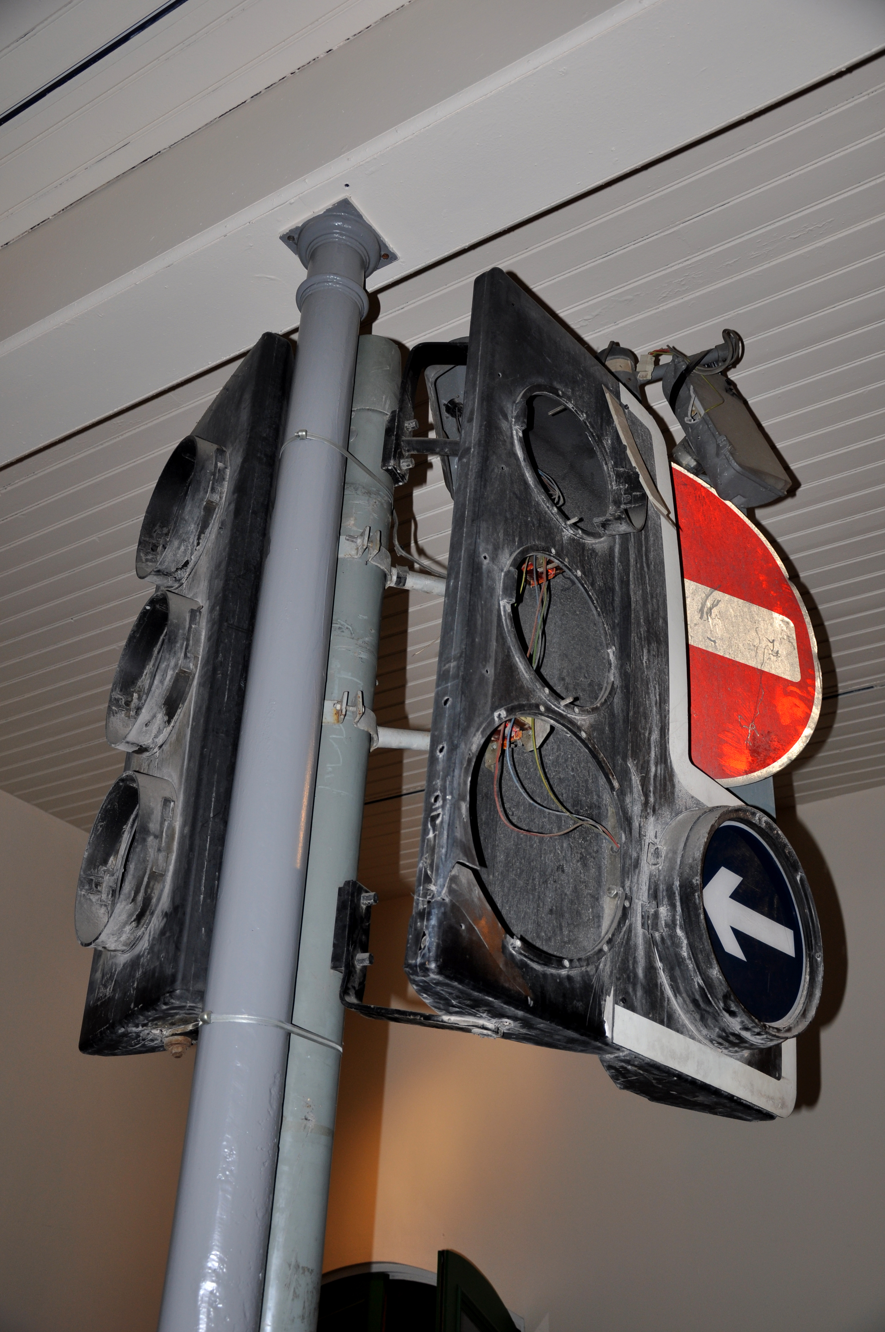 In the Museum of Science and Industry. This traffic light was recovered from the corner of Cross Street and Market Street in Manchester after the IRA bomb explosion on June 15, 1996.